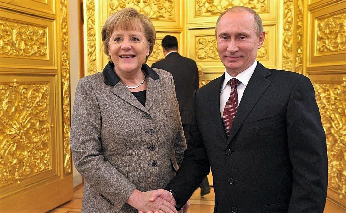 With Federal Chancellor of Germany Angela Merkel. (The Kremlin, Moscow)